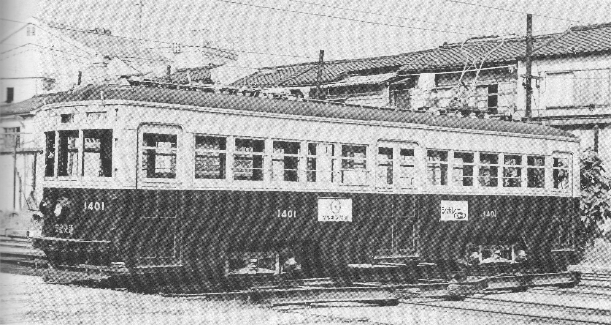 Osaka City Tram #1401.